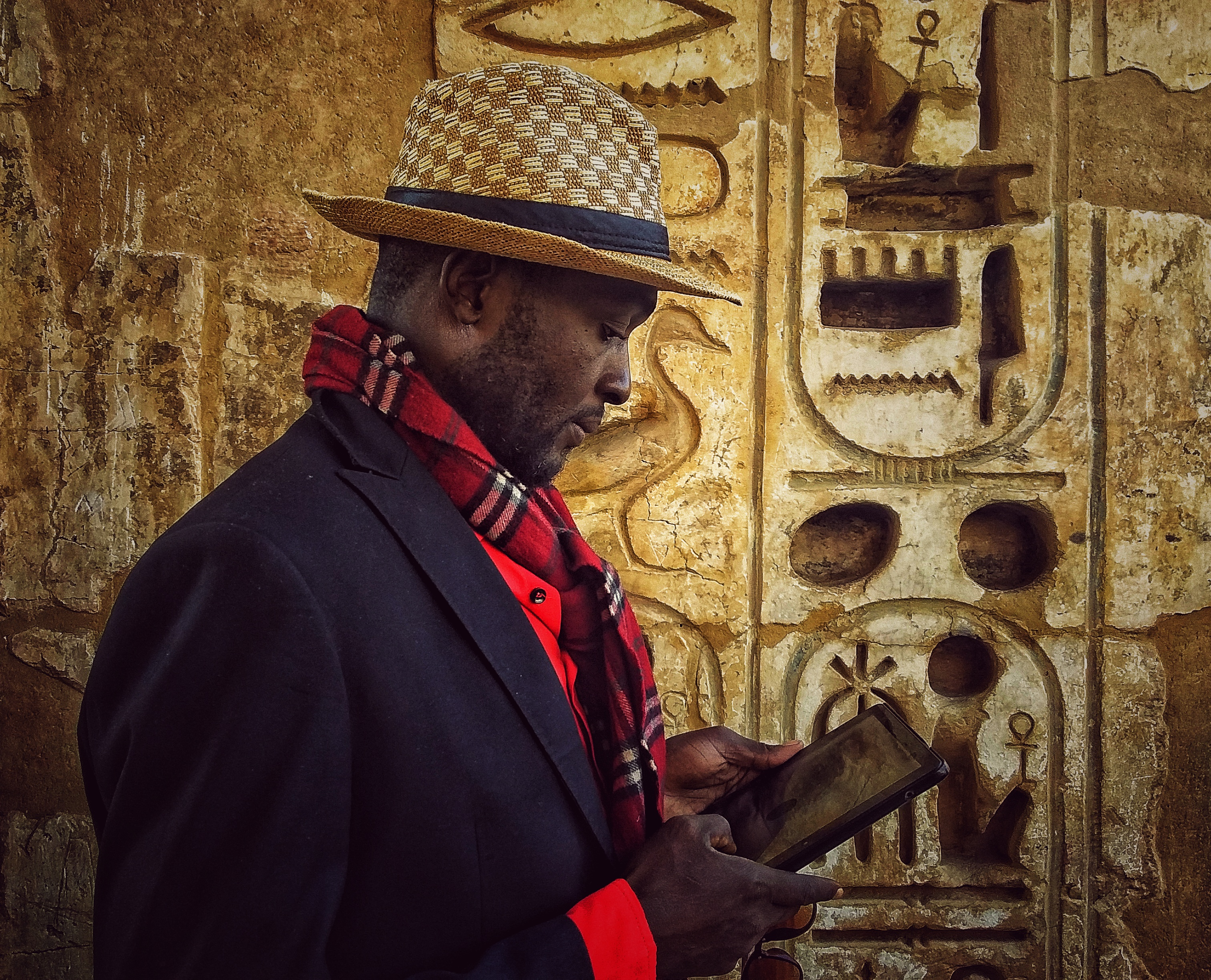 Medinet Habu Temple is the oldest funerary temple of Ramses III, located in the Egyptian city of Luxor, and i take this photo of my friend from Chad as he searches for the history of this temple This is an image with the theme "Africa on the Move or Transport" from: Egypt